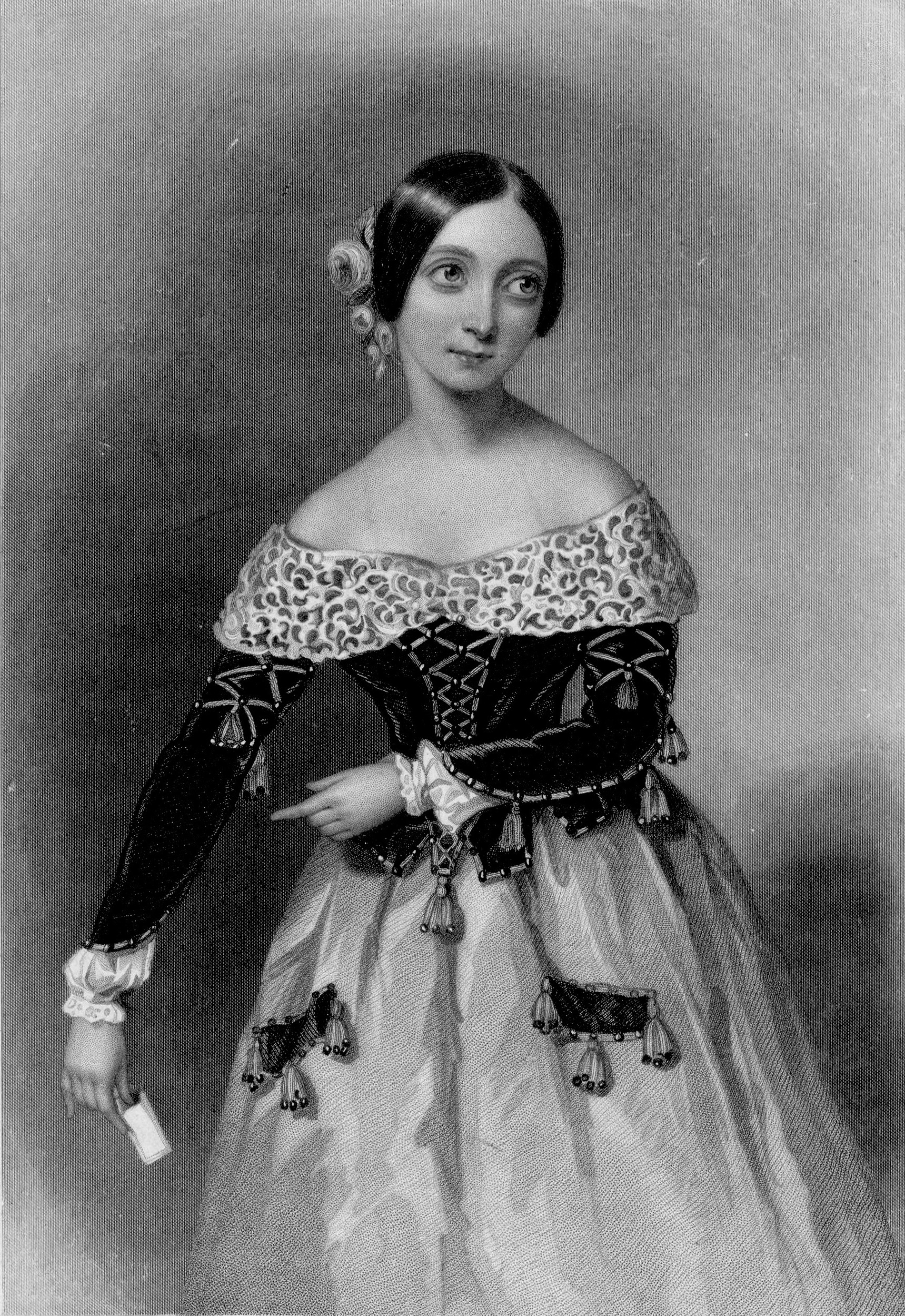 Rossini - Il barbiere di Siviglia - Fanny Persiani as Rosina - 1840